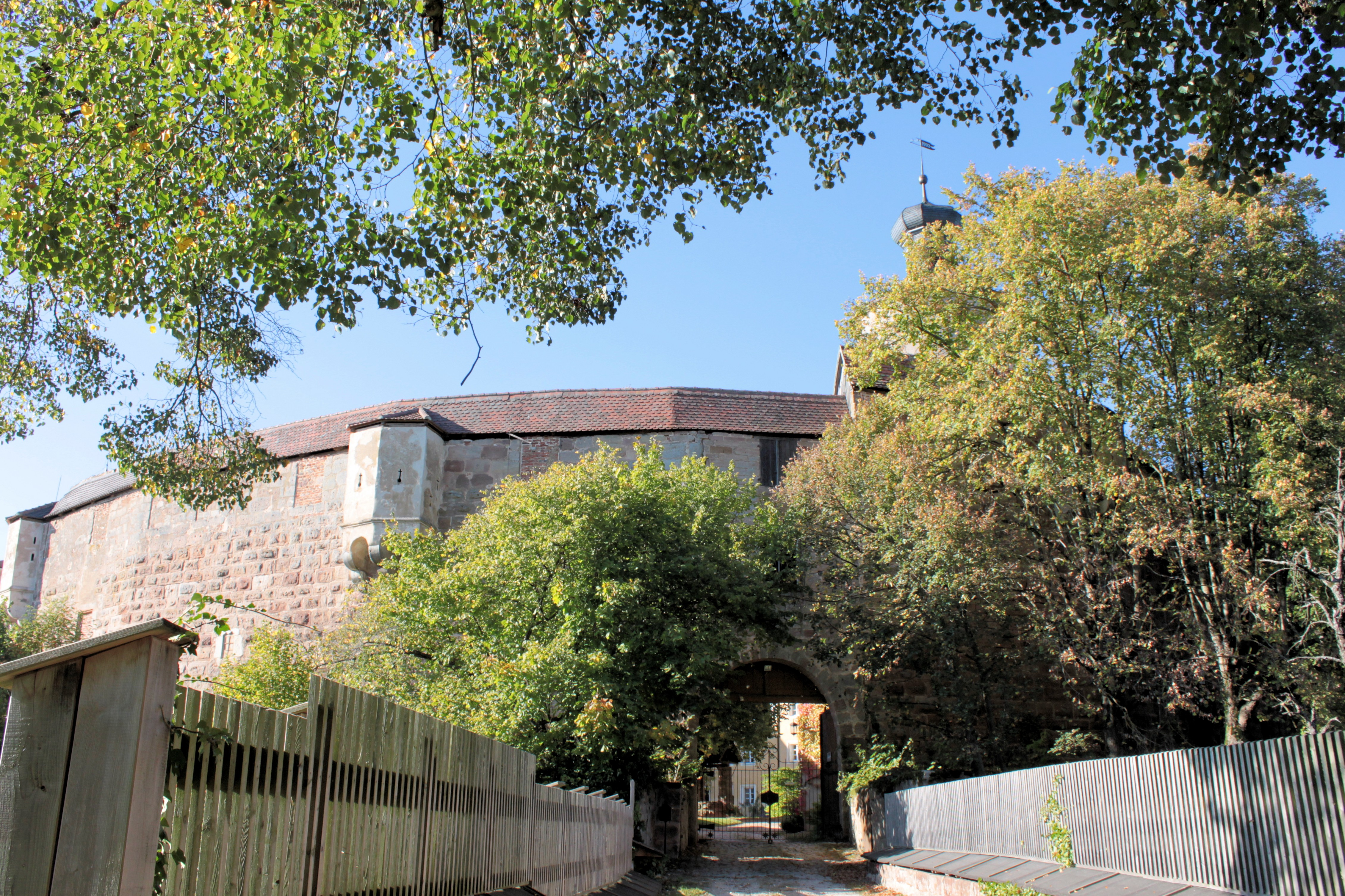 Driveway towards Schloss Sandsee, Landkreis Weißenburg-Gunzenhausen, Bavaria